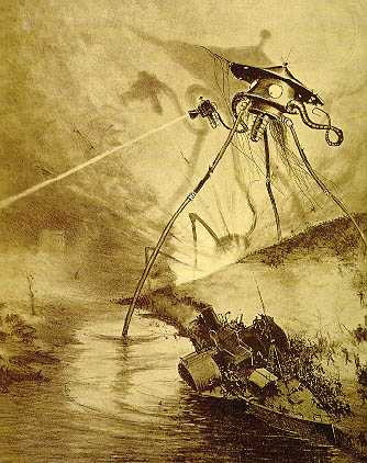 Alien tripod illustration by Alvim Corréa, from the 1906 French edition of H.G. Wells' "War of the Worlds".